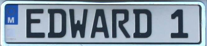 vanity plate from Malta